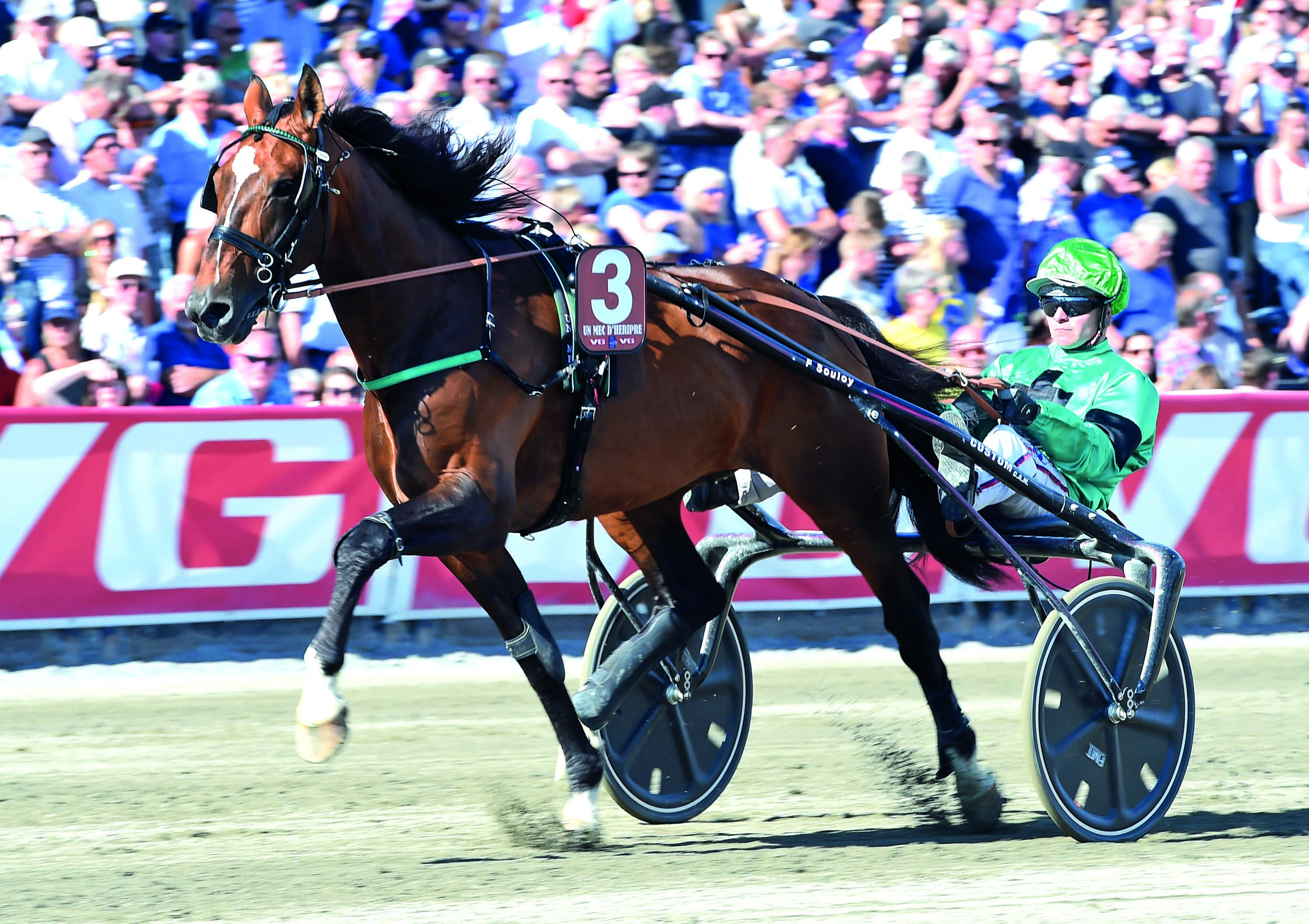 Un Mec d'Heripre at Oslo Grand Prix 2016.